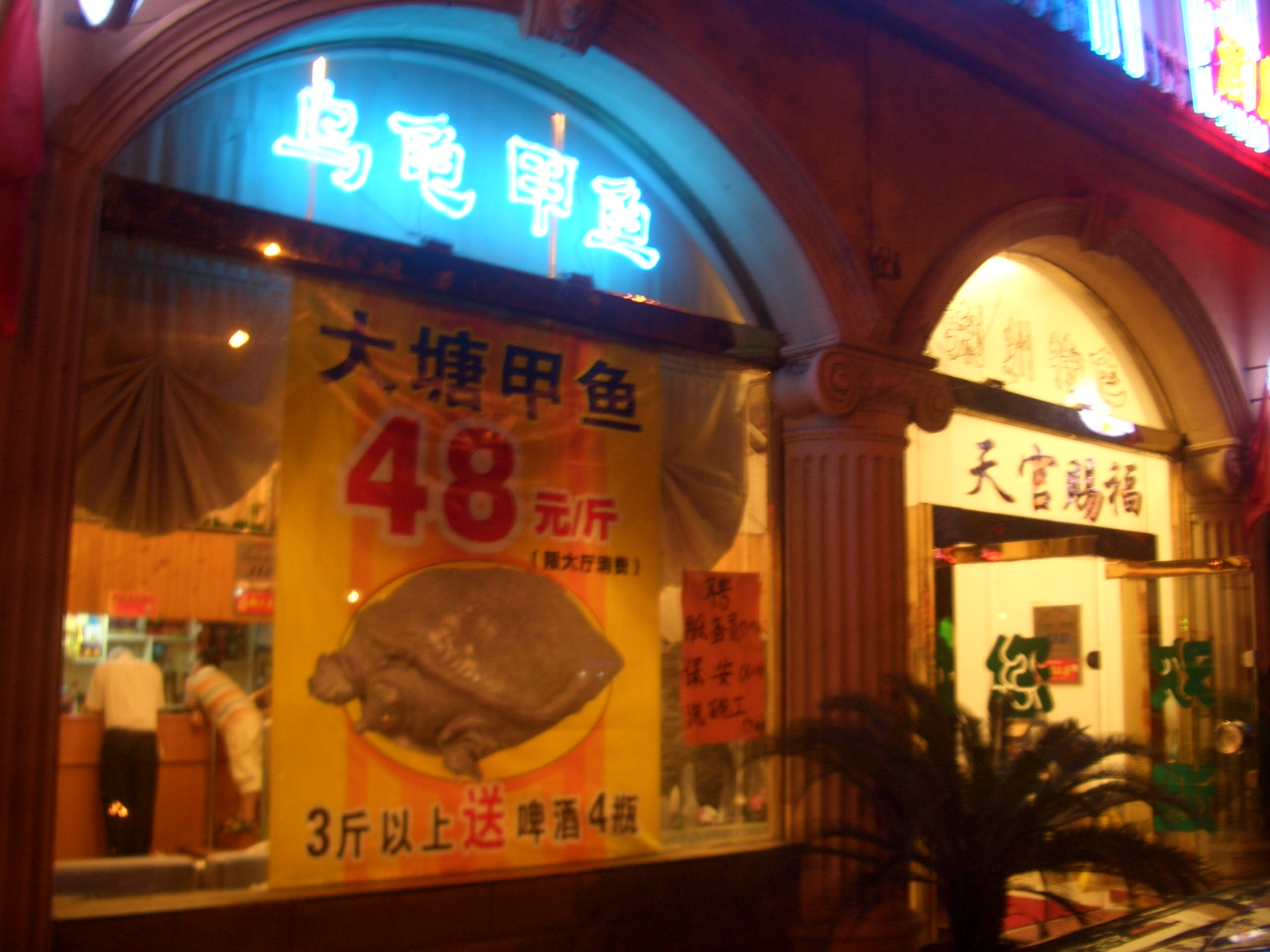 A restaurant in Wuhan (a few blocks from Hongshan Square in Wuchang) invites diners to have a softshell turtle (jiayu). At 48 yuan per jin (half a kilo), it is a fairly expensive delicacy, considering that the "Help Wanted" sign on the same restaurant offers monthly wages in the CNY 700-1000 a month. The ad mentions, "buy 3 jin or more of the turtle, and get 4 bottles of beer free!". I am not sure what Datang (大塘, literally "big pond") in the ad text, 大塘甲鱼 ("Big pond soft-shell turtle") means - whether it refers to a particular turtle variety, the brand name of a turtle farming company, or simply claims that the turtles have been raised (or even wild-caught?) in a supposedly "free-range" environment. There is, in any event, no direct claim that the creatures have been caught from the wild (野生)